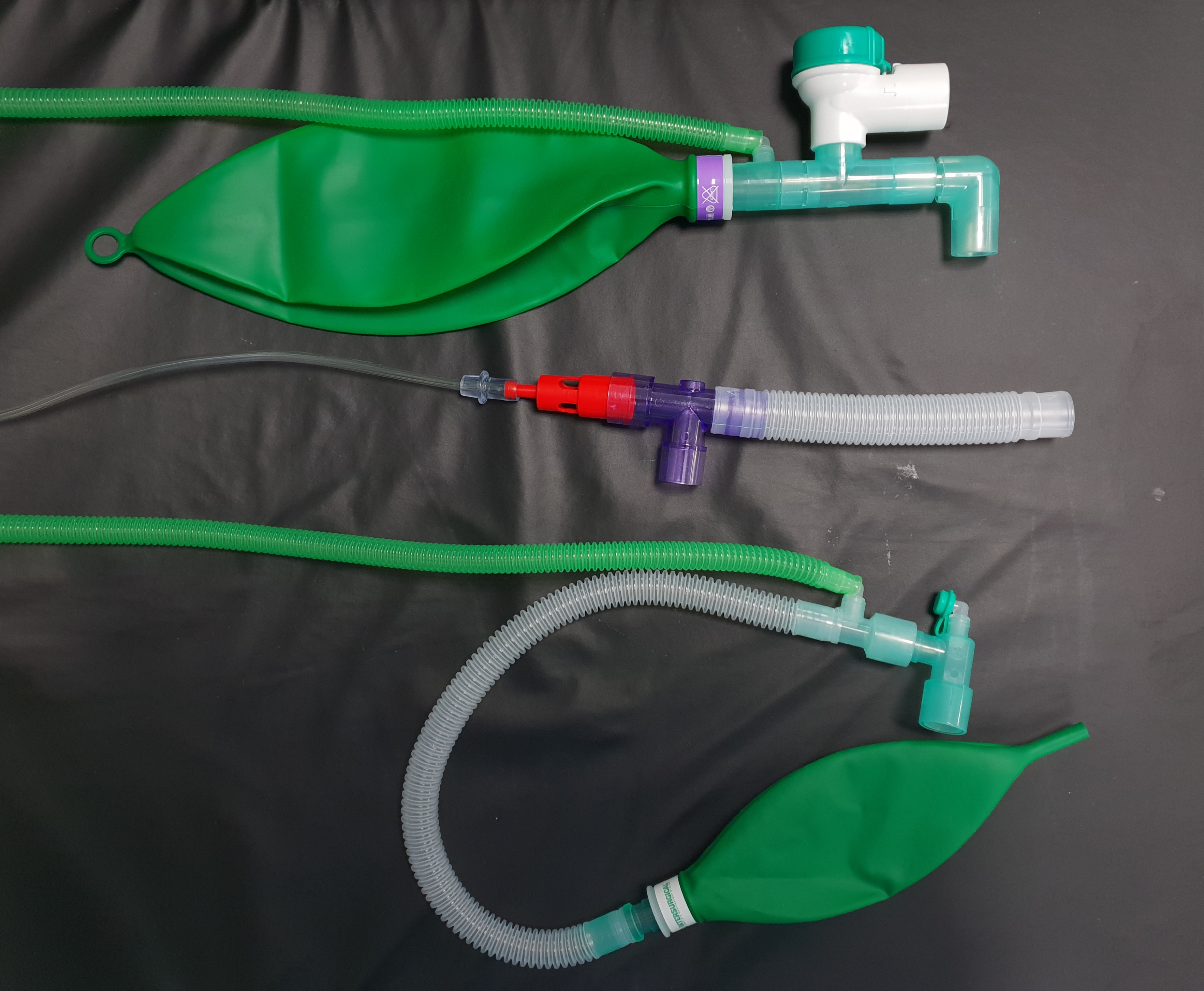 Examples of anaesthetic breathing systems that are commercially manufactured. From top to bottom: a Mapelson C system manufactured by Intersurgical; a Mapelson E system (also known as Ayre's T-piece), to which a Venturi valve has been fitted so as to reduce the delivered oxygen concentration; and a Mapelson F system (also known as the Jackson-Rees modification of Ayre's T-piece) manufactured by Intersurgical.